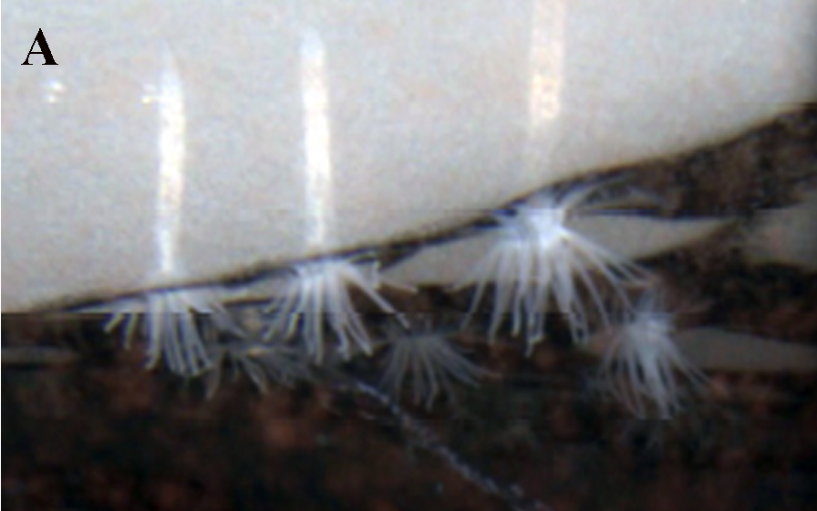 External anatomy and habitus of Edwardsiella andrillae n. sp. A. Close up of specimens in situ. Image captured by SCINI.